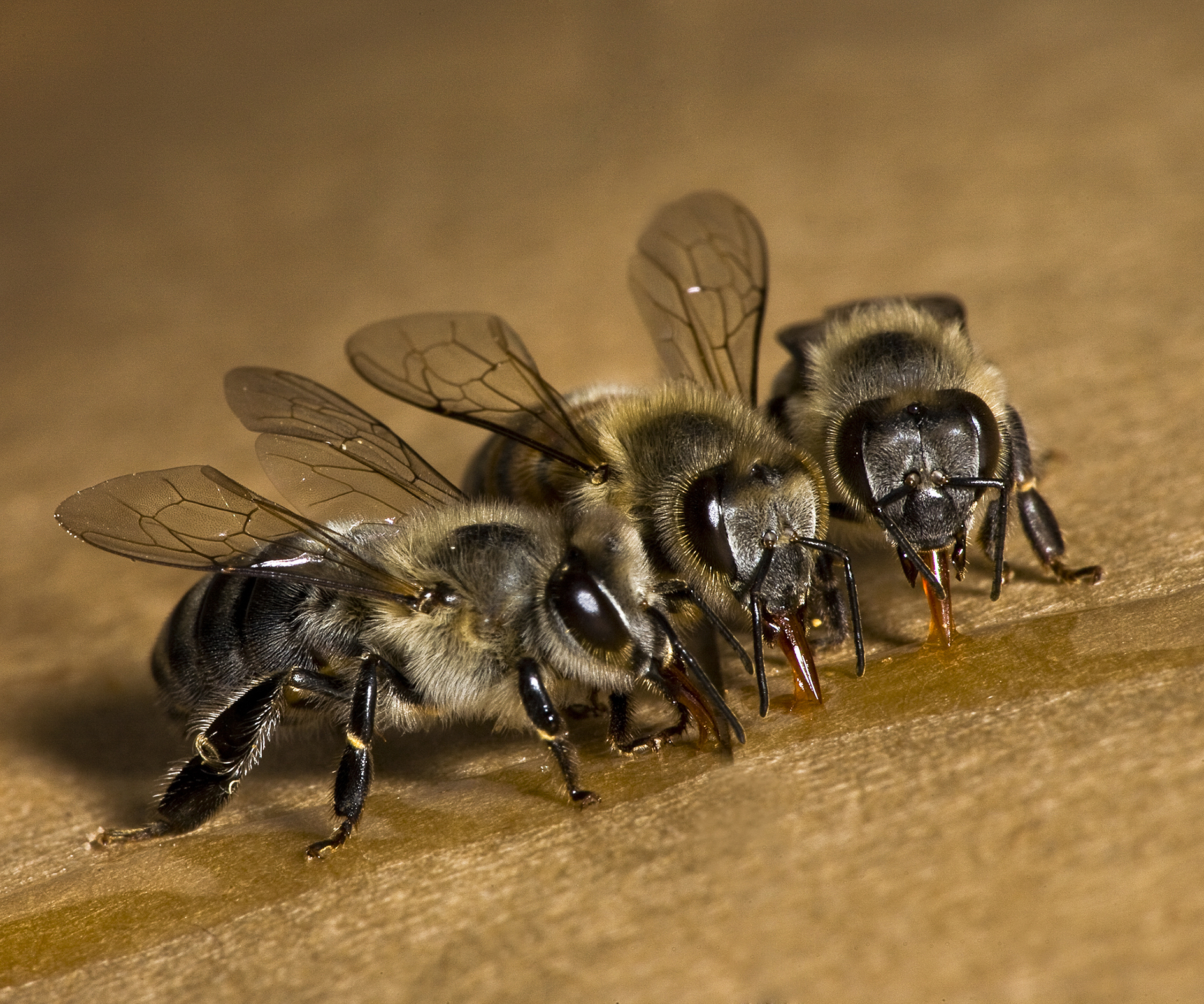 Apis Mellifera bees taking in honey for transport back to hive